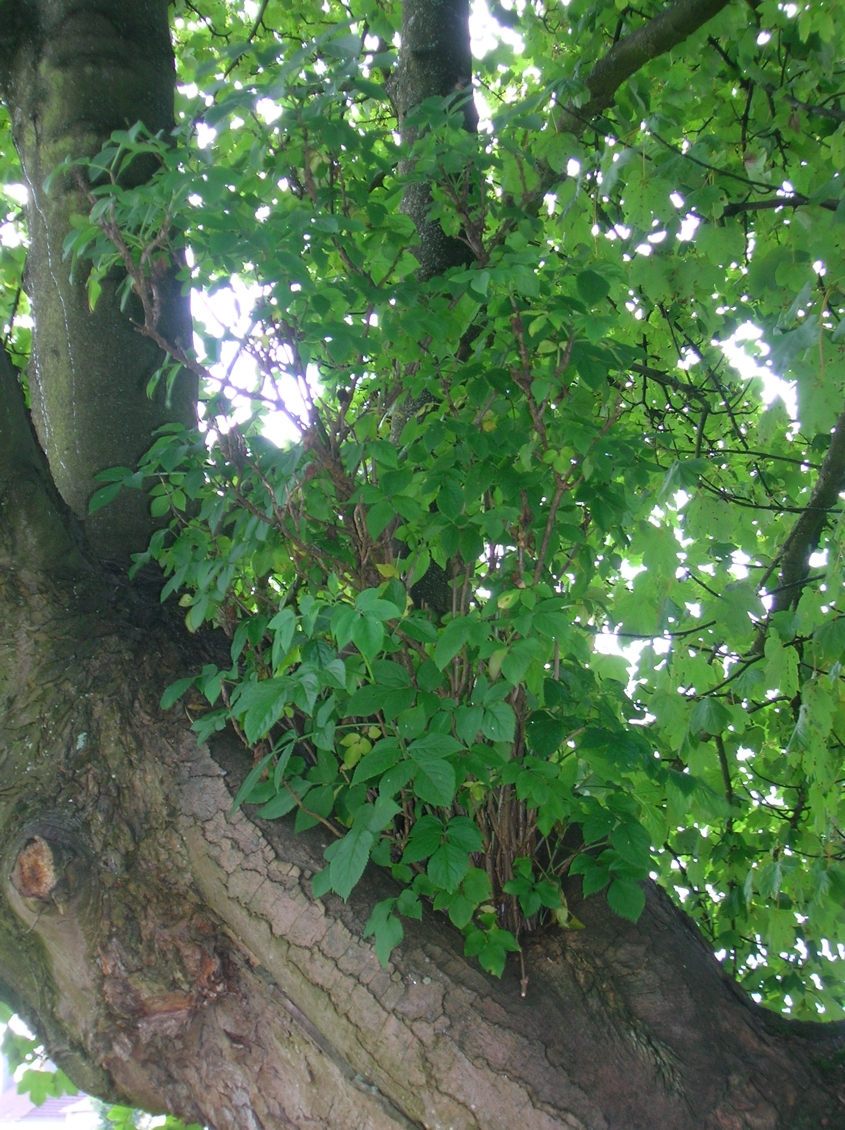 Elder (sambucus nigra) growing on a Sycamore (Acer pseudoplatanus) in Dalry, North Ayrshire, Scotland.